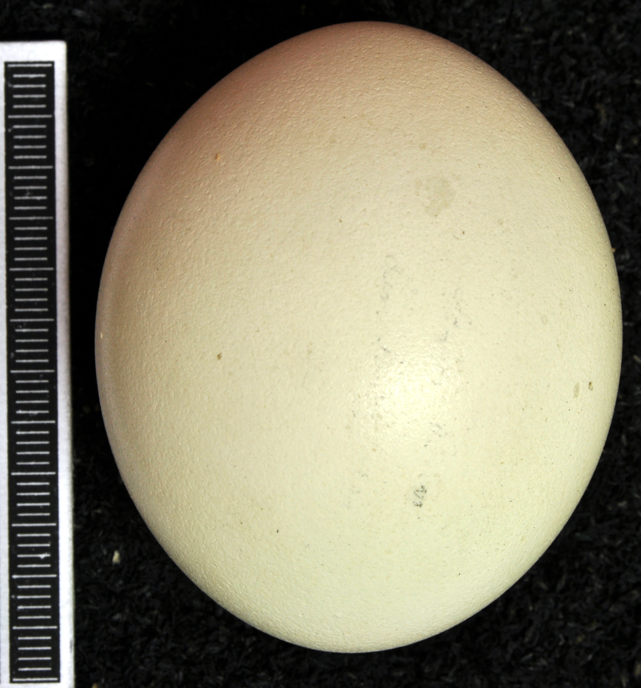 Eurasian eagle-owl Bubo bubo , egg, Coll. Museum Wiesbaden